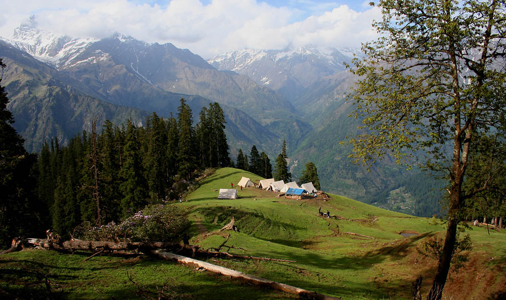 It was our second last camp at 11,000 ft. & first after crossing Sar Pass. It's not called the Swiss of India for nothing. Beauty tells everything. One sight & all tiredness & difficulties of the treks are completely laid to rest. Taken during Sar Pass Trek in the Kullu District of Himachal Pradesh, India.